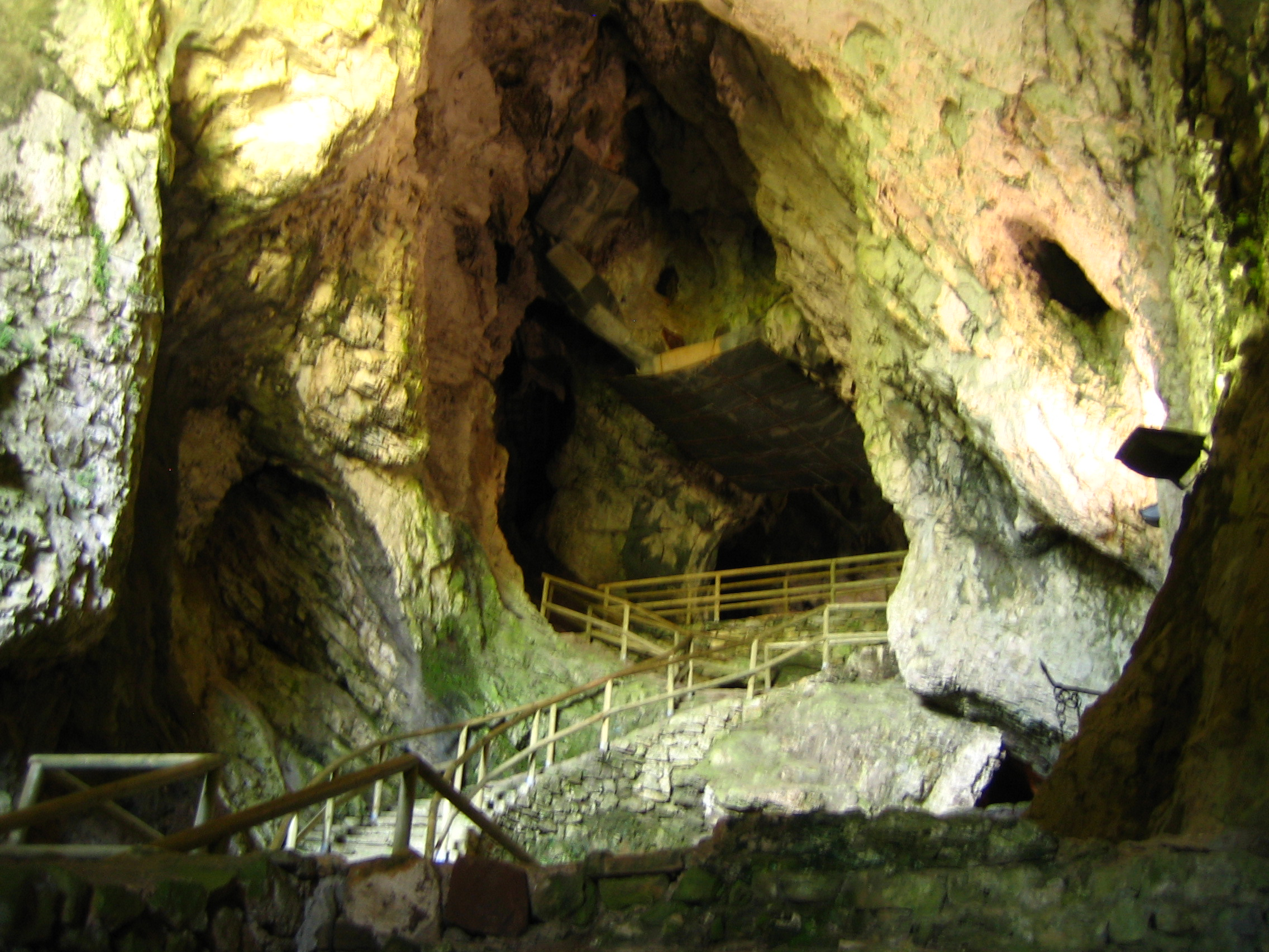 Cave mouth behind Predjama castle